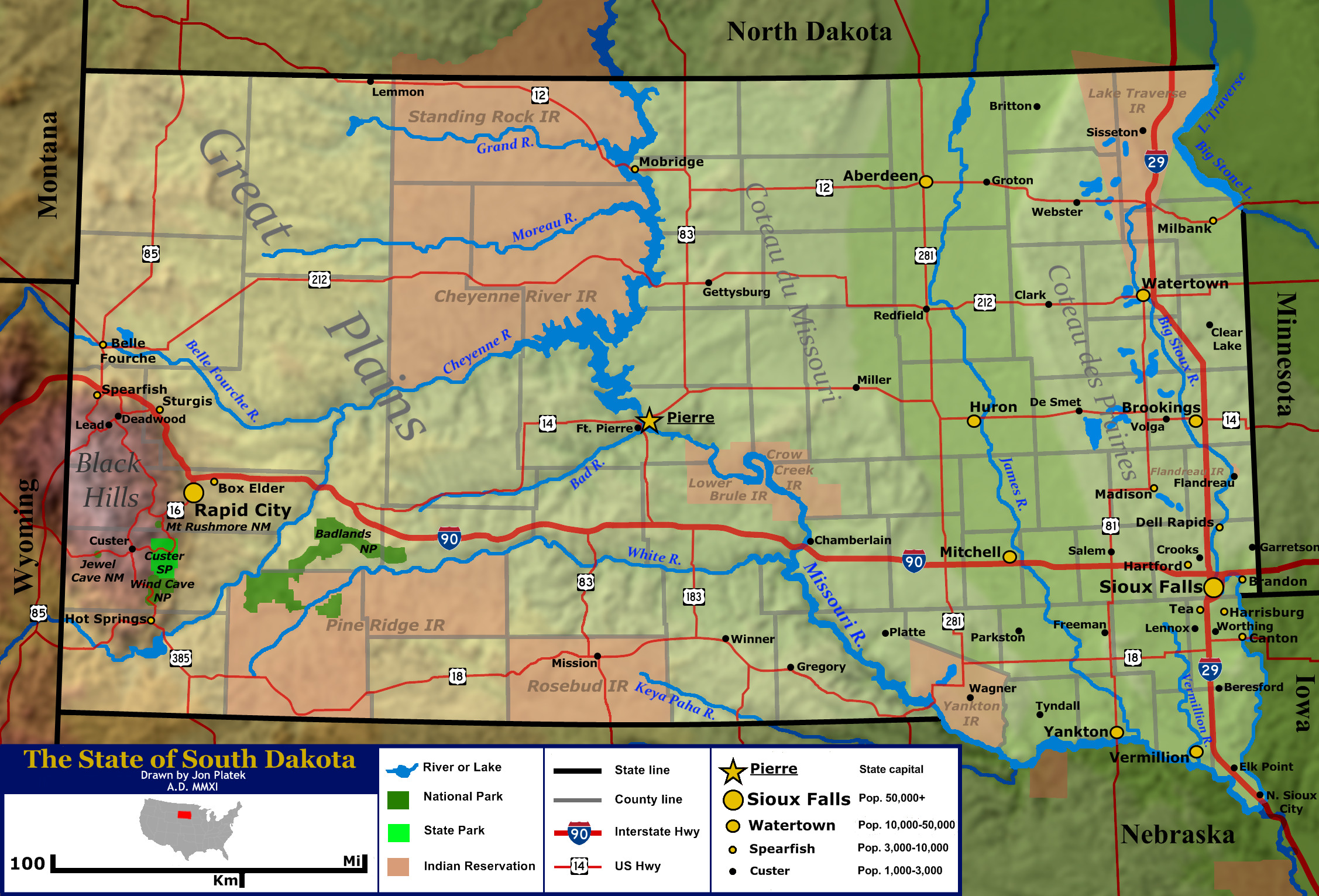 General map of the US state of South Dakota. Shown are the state's topography, major cities and roads, boundaries, and bodies of water.